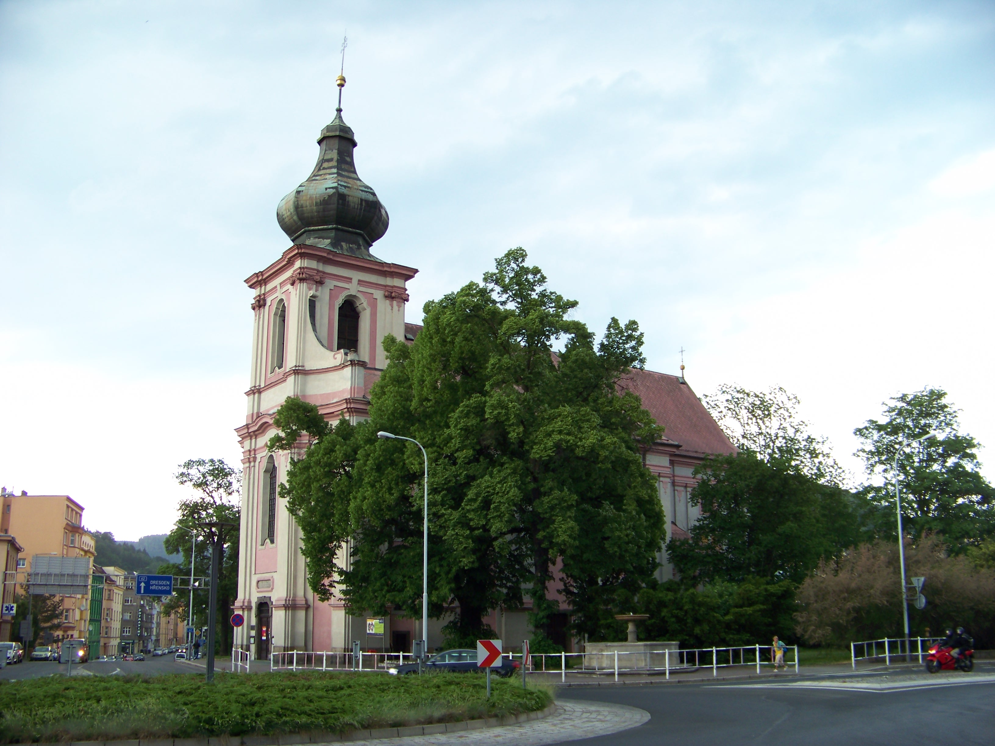 Děčín I-Děčín, Děčín District, Ústí nad Labem Region, the Czech Republic. 28. října and Pohraniční street, Church of Saints Wenceslaus and Blaise.